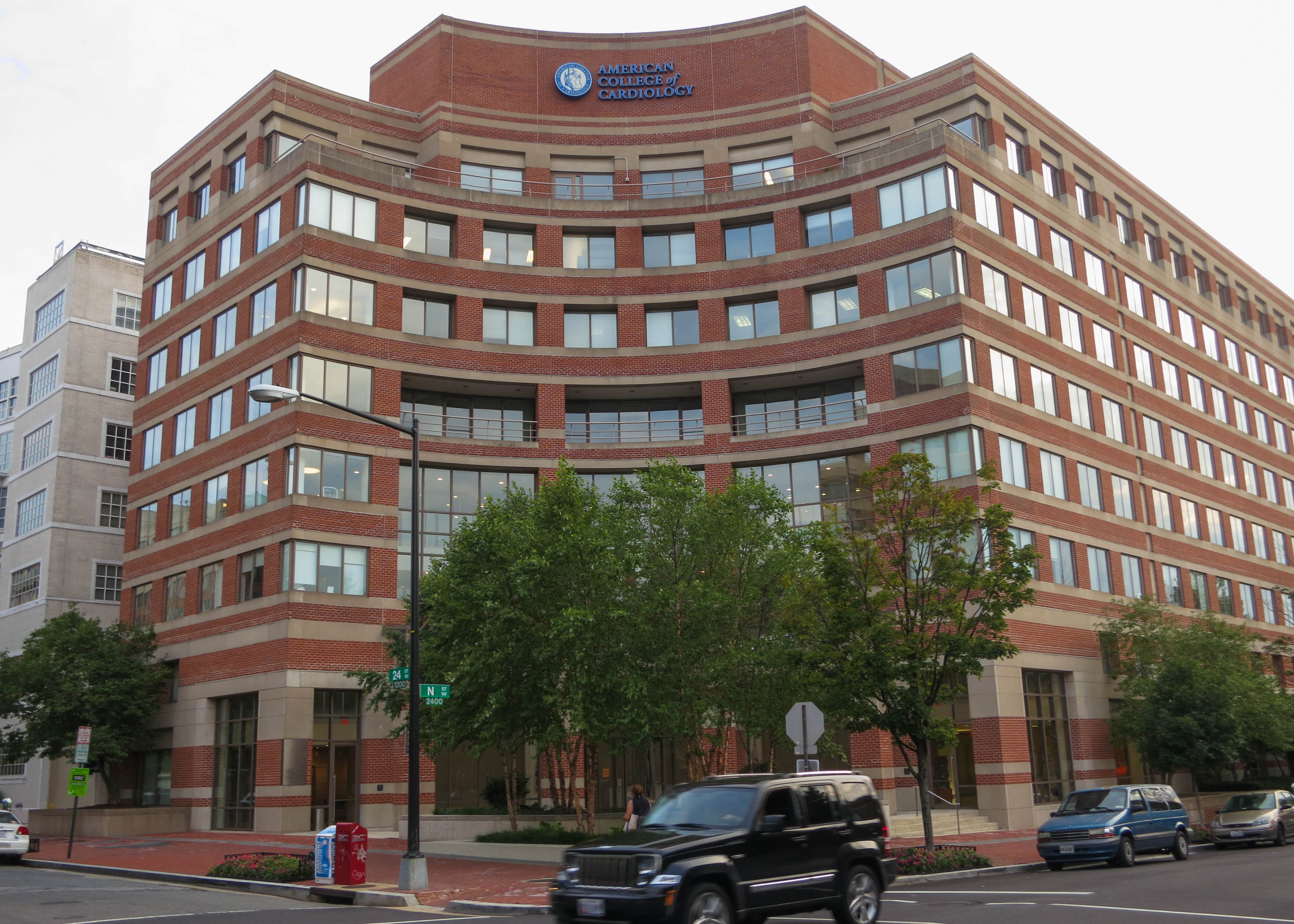 The American College of Cardiology.